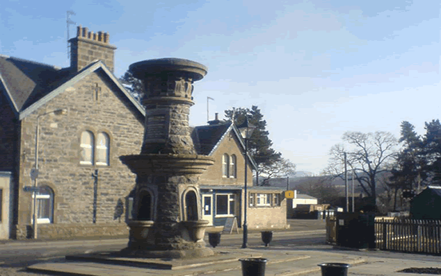 Philip Taylor, Personal Photo, Free License